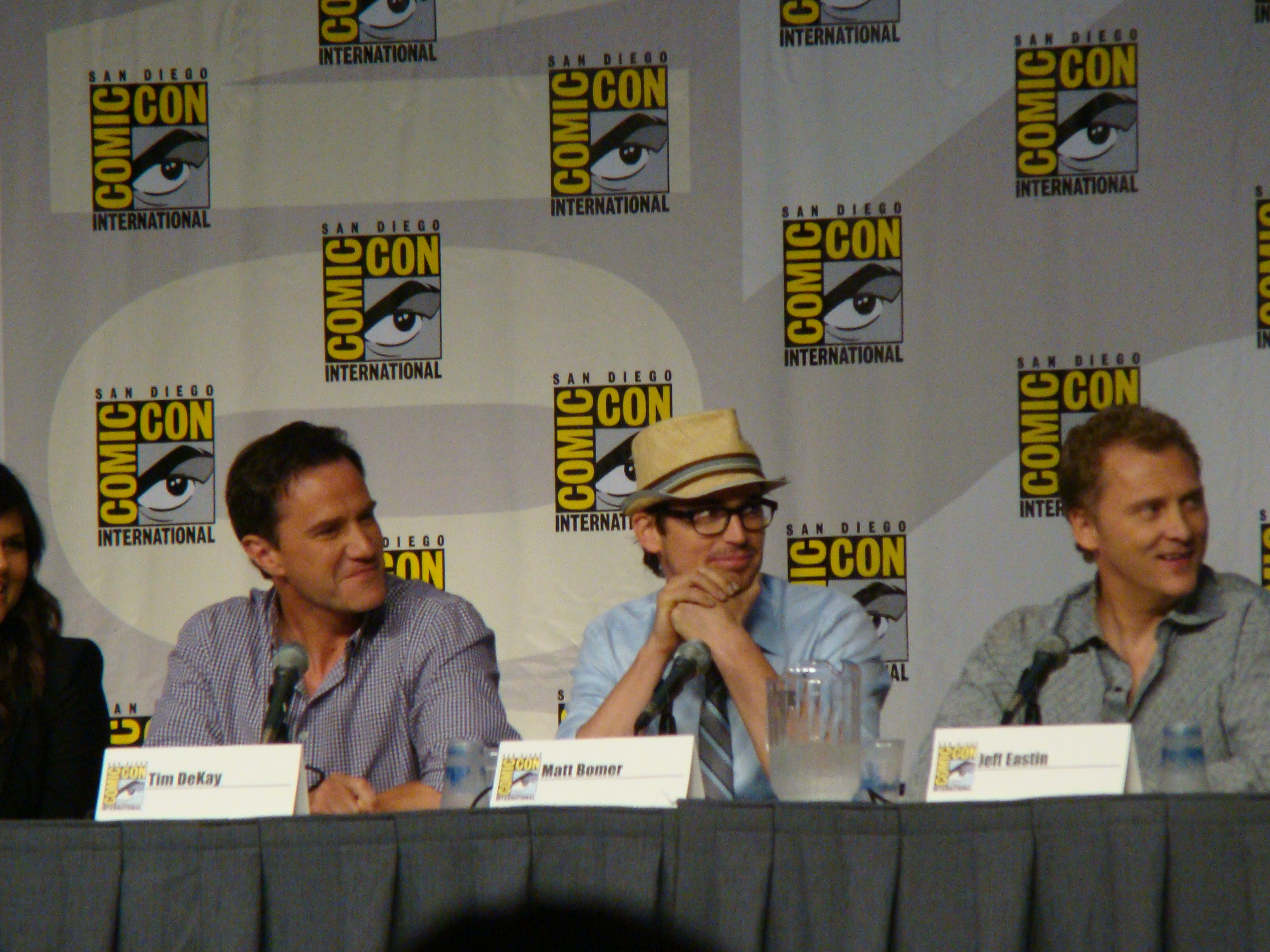 Tim DeKay, Matt Bomer & Jeff Eastin